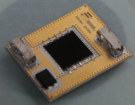 This 10×10 mm HCPV solar cell was produced by Fotrousi Electronics in August 2011, claimed to generate 41.14 watt in 1100 suns.